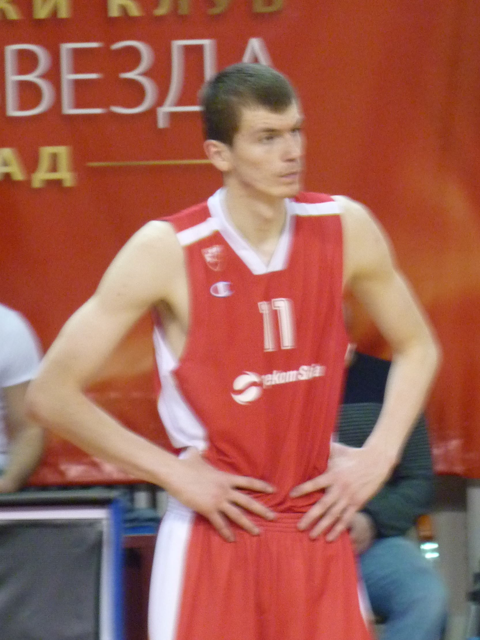 young basketball player of KK Crvena zvezda